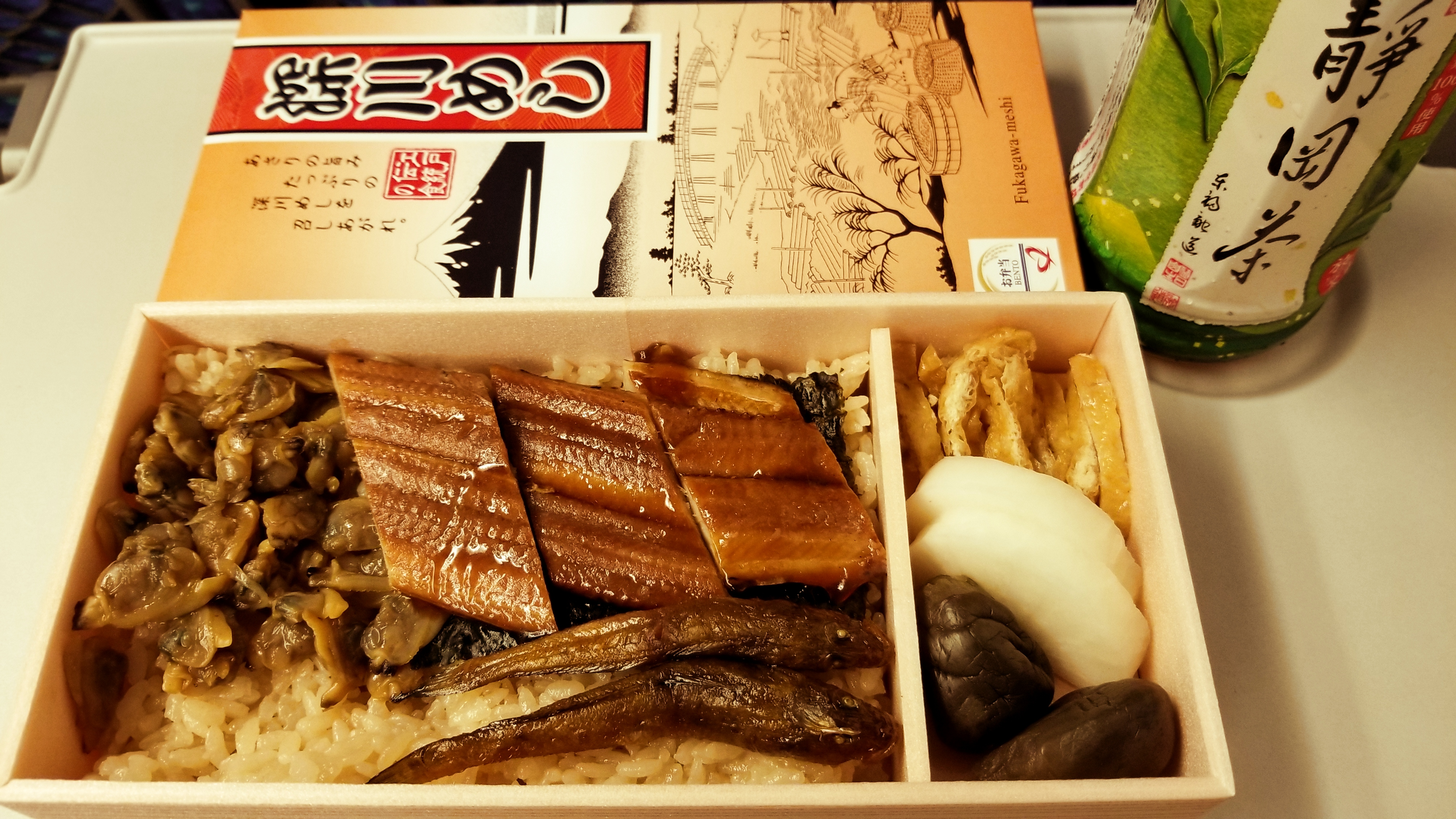 Fukagawa Meshi, an ekiben manufactured and sold by JR-Central Passengers at Tokyo.